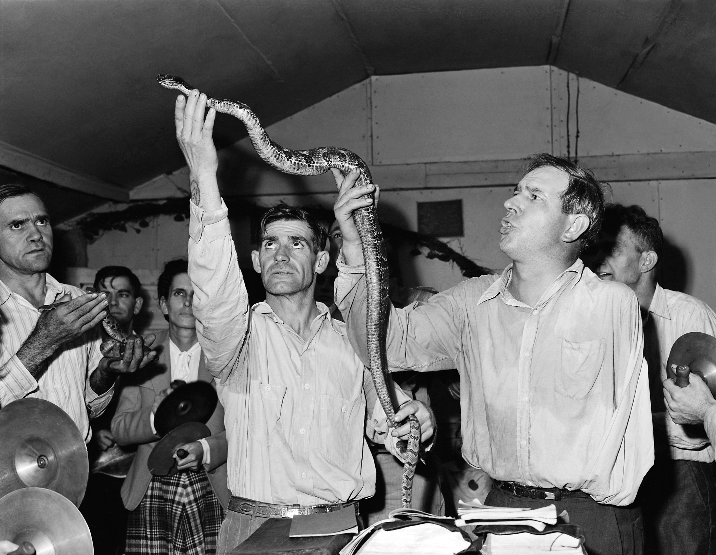 Handling serpents at the Pentecostal Church of God. Lejunior, Harlan County, Kentucky. Company funds have not been used in this church and it is not on company property. Most of the members are coal miners and their families. The pastor Eli Sanders, who is standing at the right died from a snake bite suffered during the ritual use of snakes in September 1958